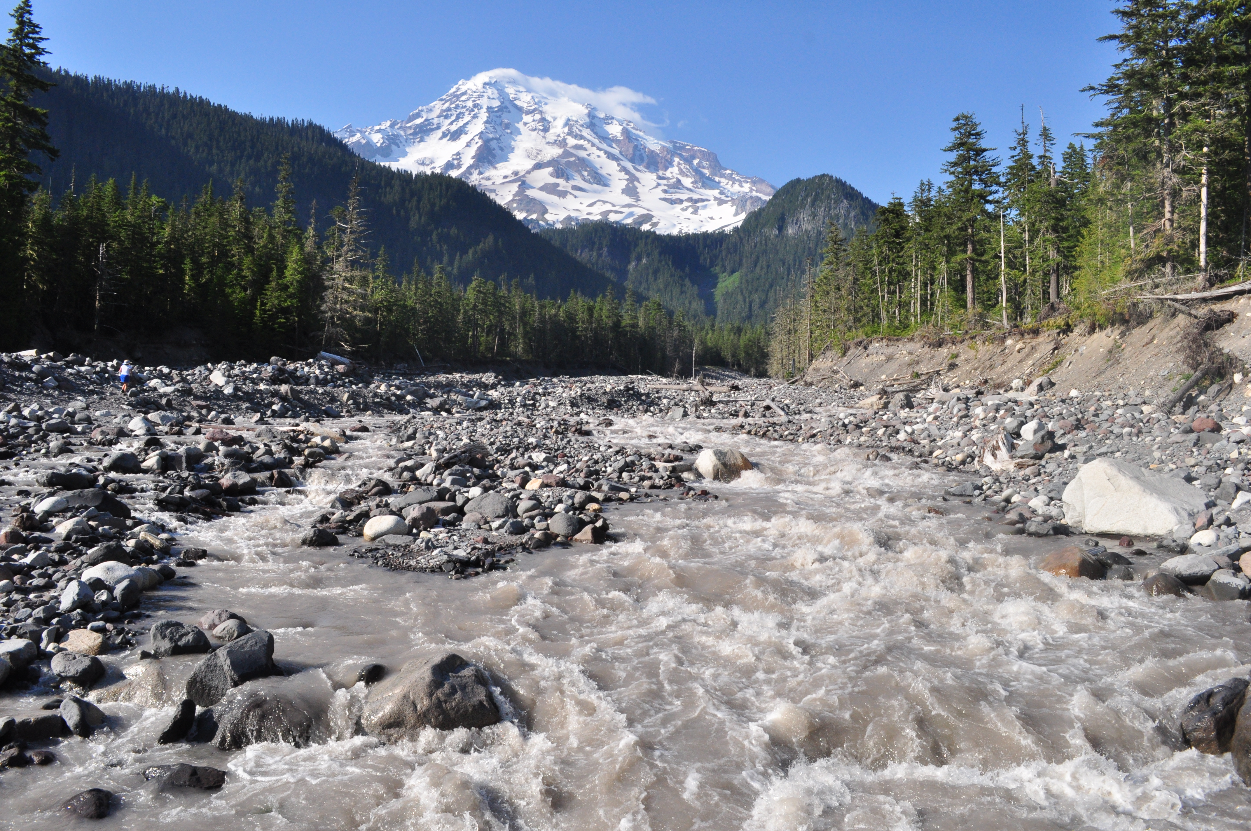 Mount Rainier seen from small footbridge on Wonderland Trail across the Nisqually River near Cougar Rock, Mount Rainier National Park, Washington State, U.S.